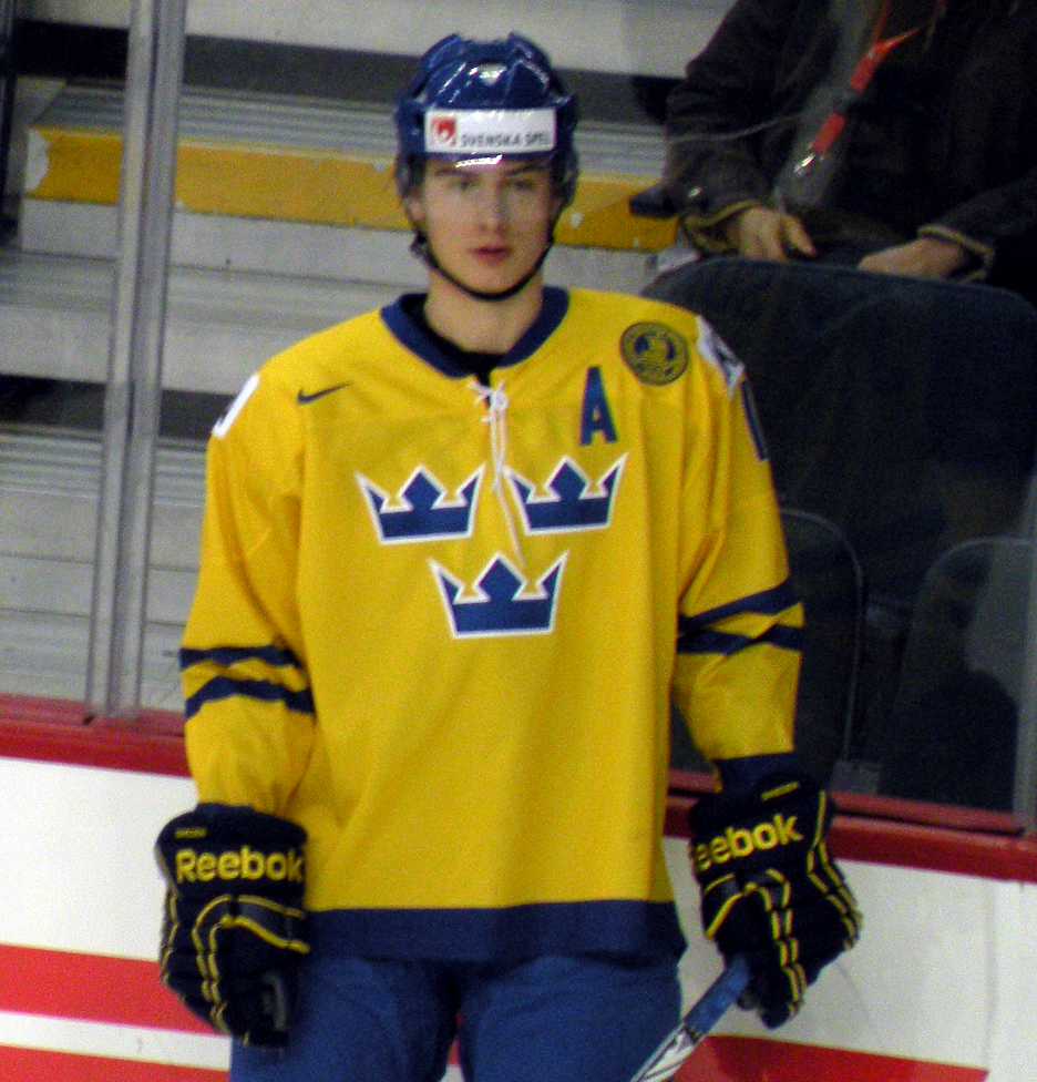 Swedish forward Johan Sundstrom prior to the gold medal game of the 2012 World Junior Hockey Championships at Calgary, Alberta, Canada.